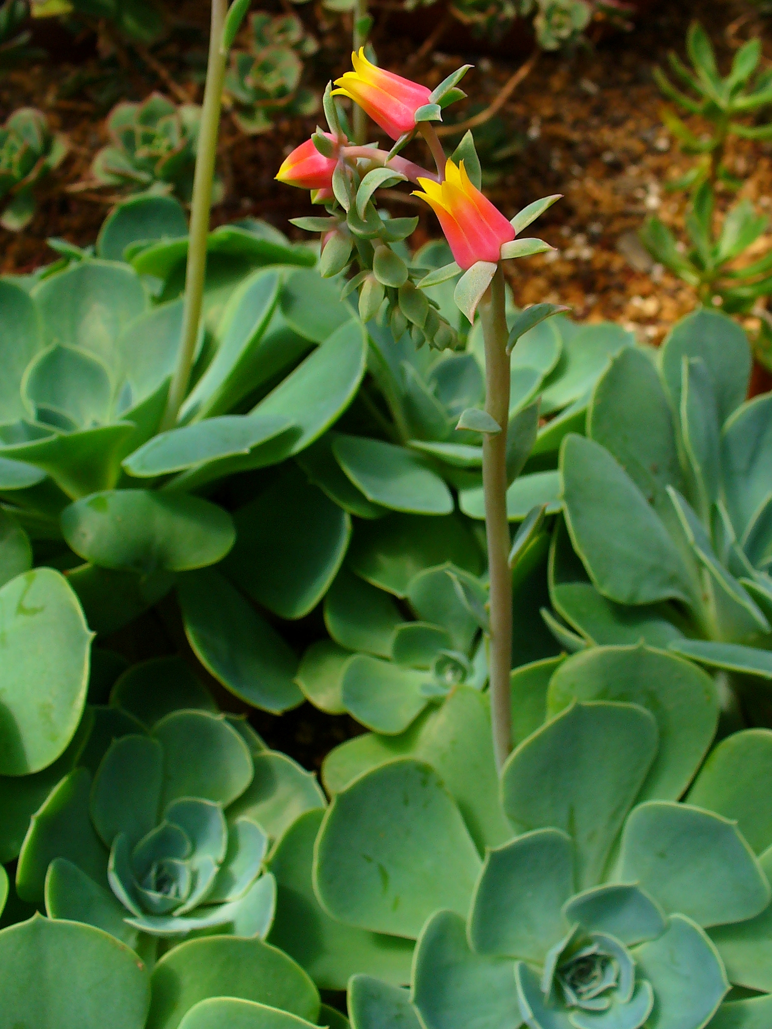 Habitus; Botanical Garden KIT, Karlsruhe, Germany.